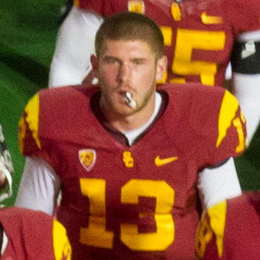 Quarterback Max Wittek after a game in the 2012 USC Trojans football season.